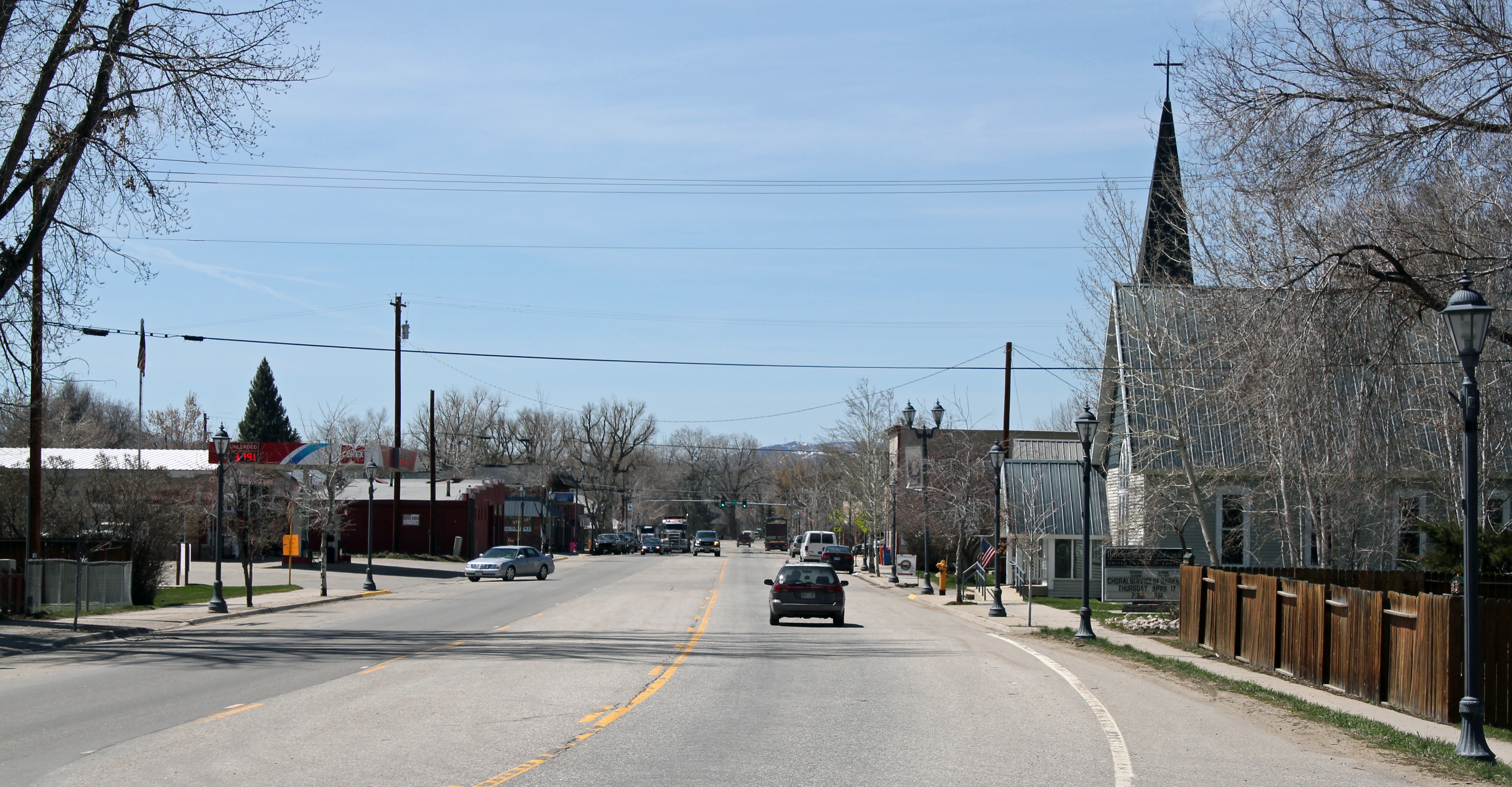 A view of Hayden, Colorado, along the town's main street, U.S. Route 40, or Jefferson Avenue.